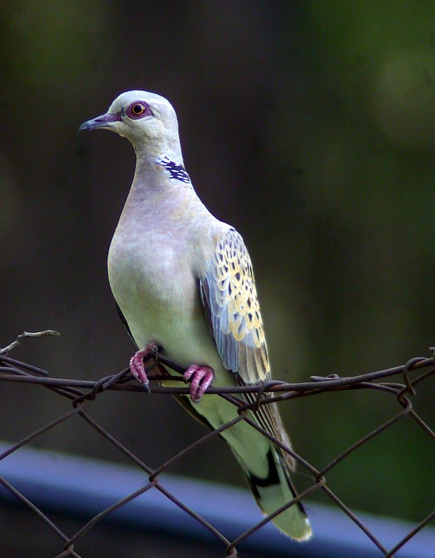 Wildlife and Plants of Israel